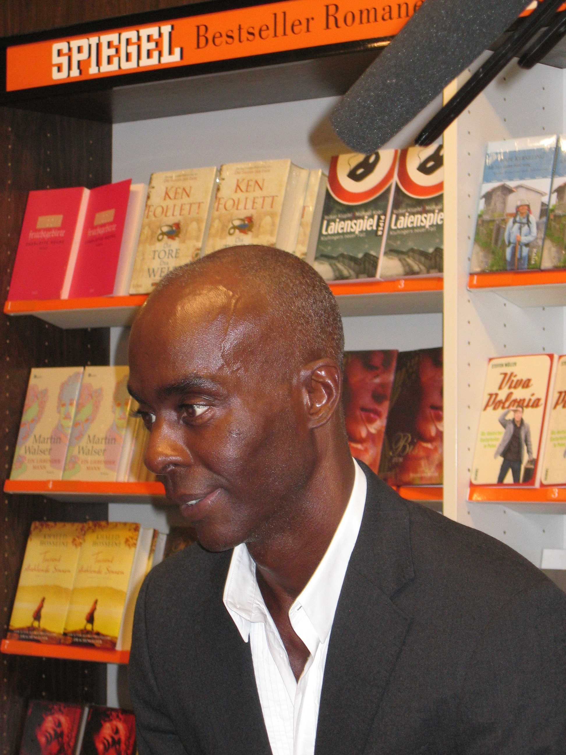 The choreographer Bruce Darnell gives authographs in Cologne, Germany